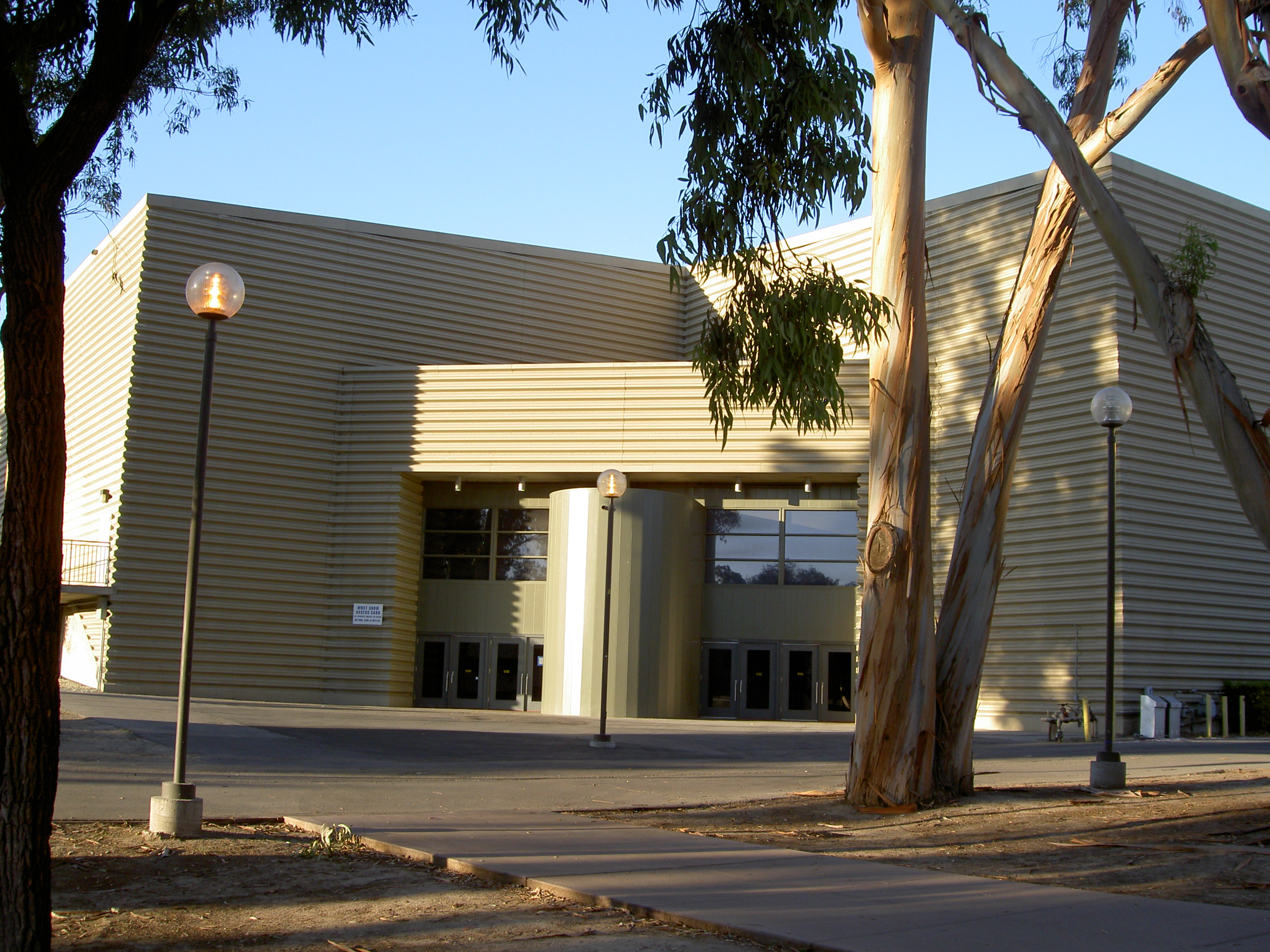 The "back" side of the Thunderdome, from the point of view of one of the main student walkways.